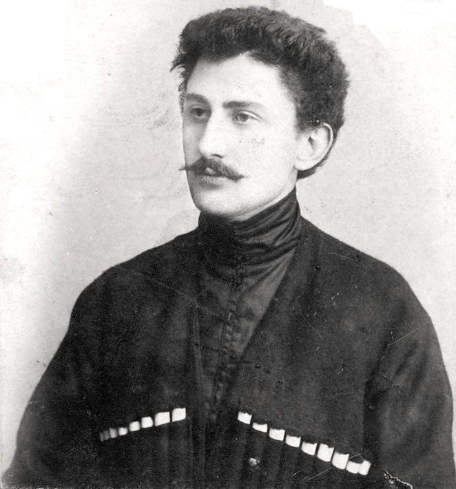 Shalva Dadiani (Georgian: შალვა დადიანი) (May 9, 1874 – March 15, 1959) was a Georgian novelist, playwright, and a theatre actor.